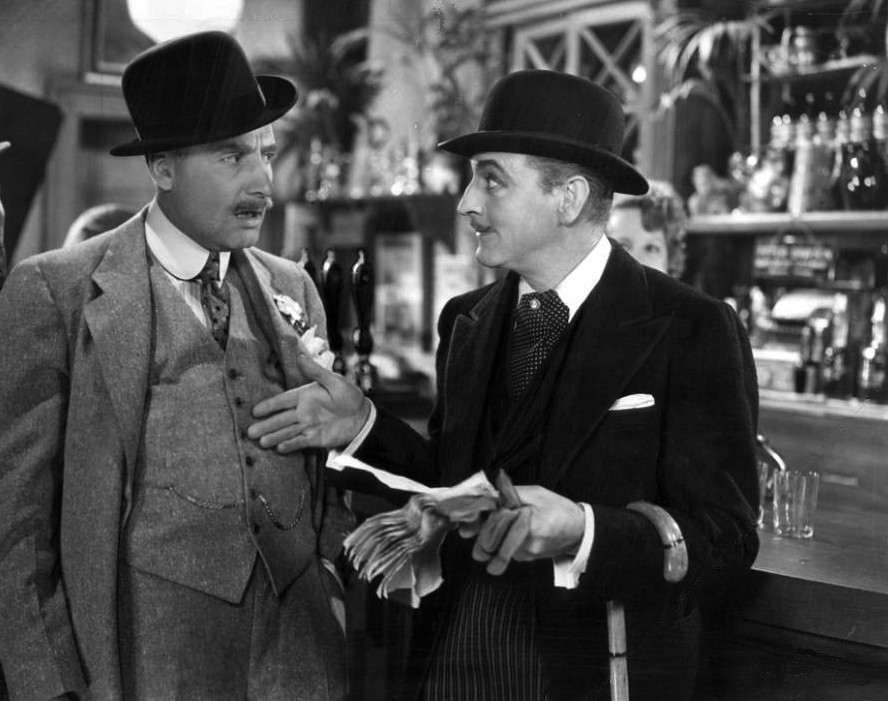 Photo of John Barrymore and Alan Mowbray in the 1934 film Long Lost Father.